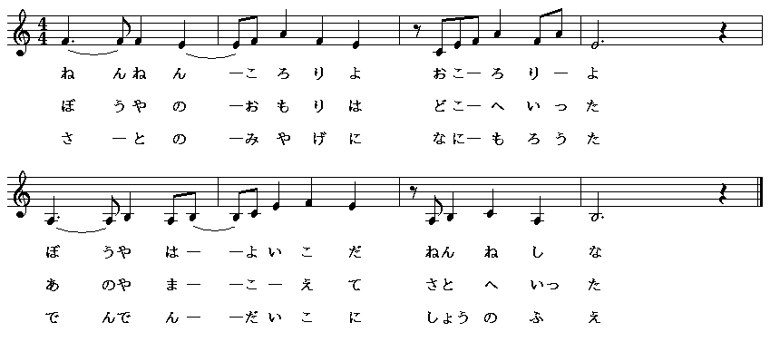 A sheet music of "Edo lullaby" in Japan